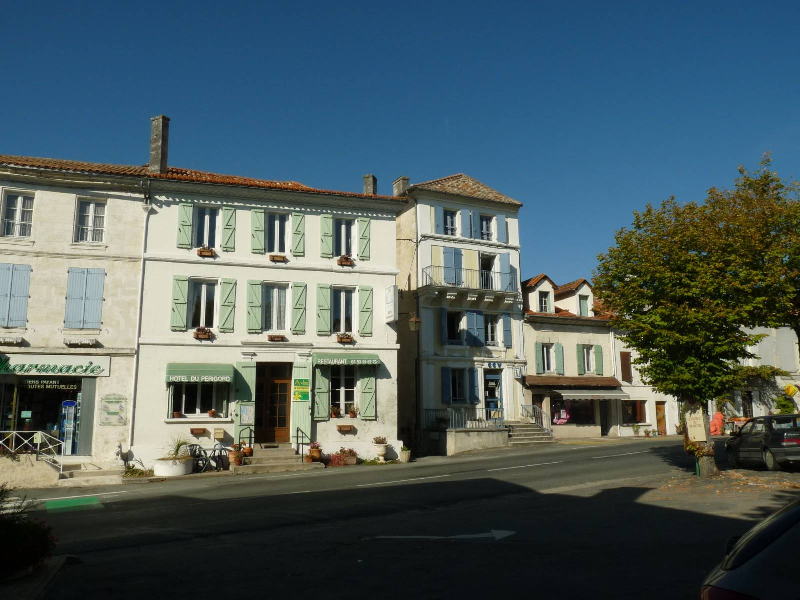 Vertaillac, Dordogne, SW France